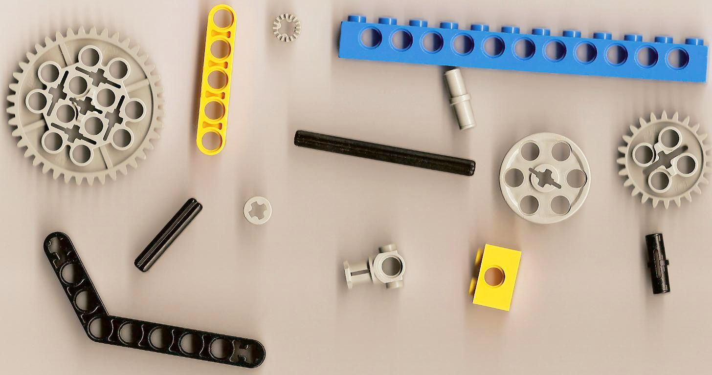 Assortment of lego technic pieces.